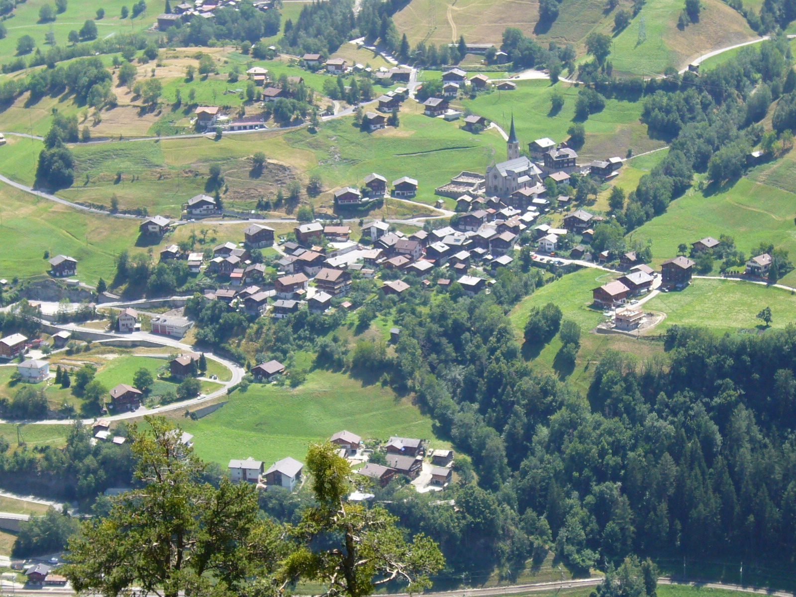 Grengiols, village in the canton of Valais, Switzerland. Picture taken by Peter Berger, July 16, 2006.